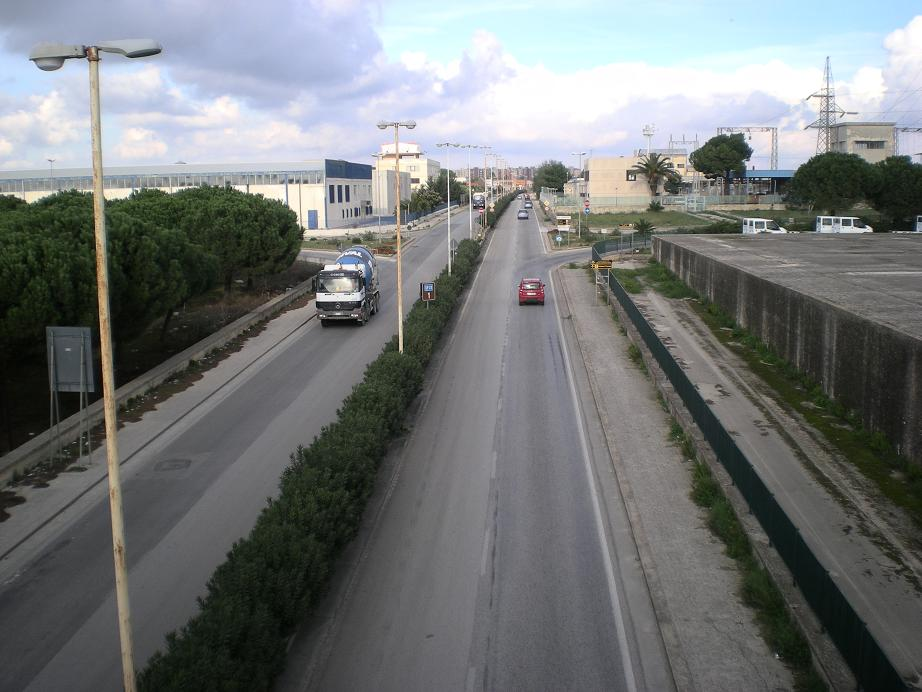 The SP.25 road that runs from Ragusa to Marina di Ragusa. Sicily.